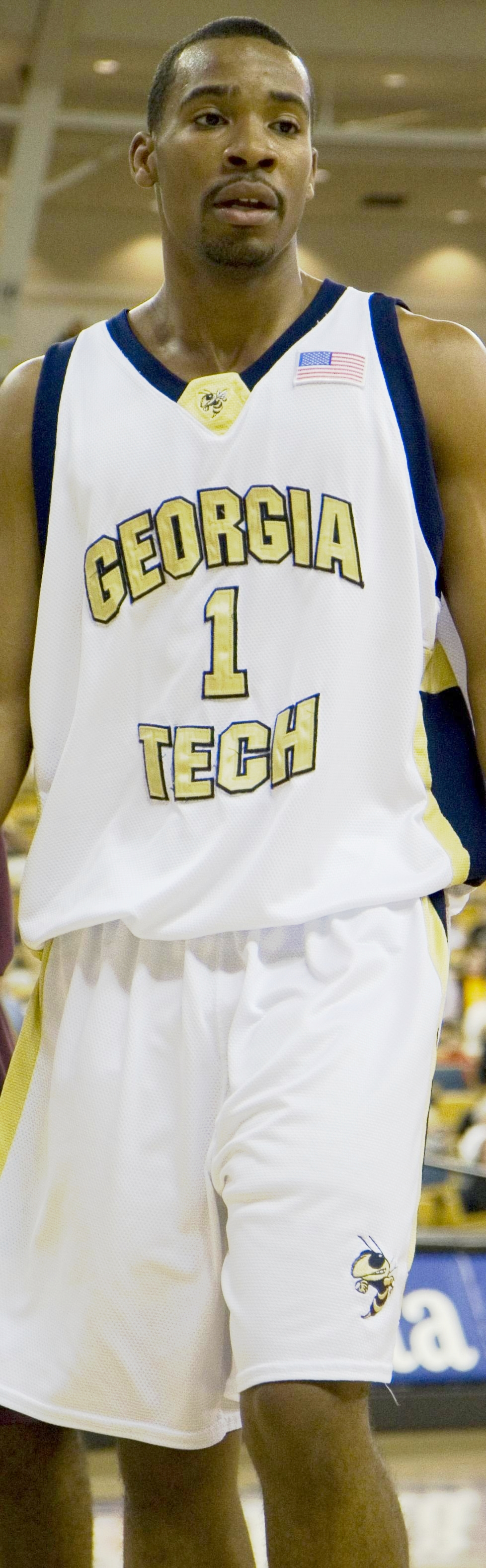 Georgia Tech basketball player Javaris Crittenton.